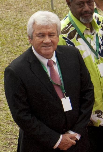 Harold Martin, president of the french collectivity of New Caledonia, poses for a family photo at the Cook Islands National Auditorium, during a Pacific Islands Forum's leaders meeting, August 31, 2012 [State Department photo by Ola Thorsen/ Public Domain], cropped by User:Tharkun